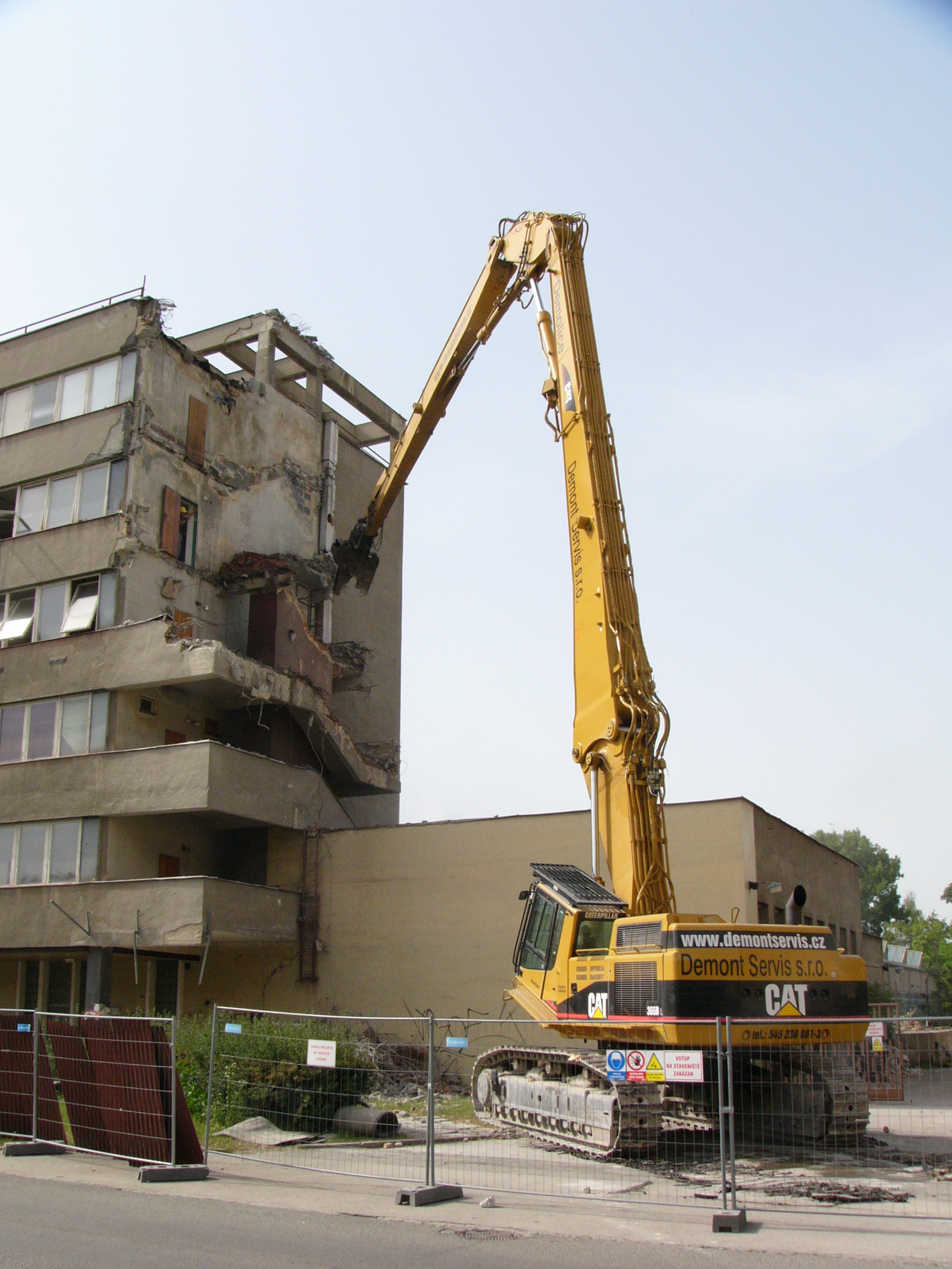 High Reach Demolition Excavator - Hydraulic demolition scissors on chassis CAT 365B L. Arm is 30 m long.